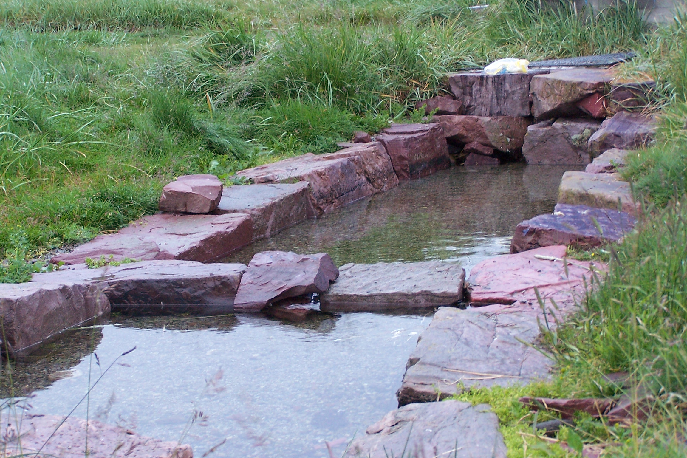 The Old Norse Spring (hydrosphere) in Igaliku, Greenland